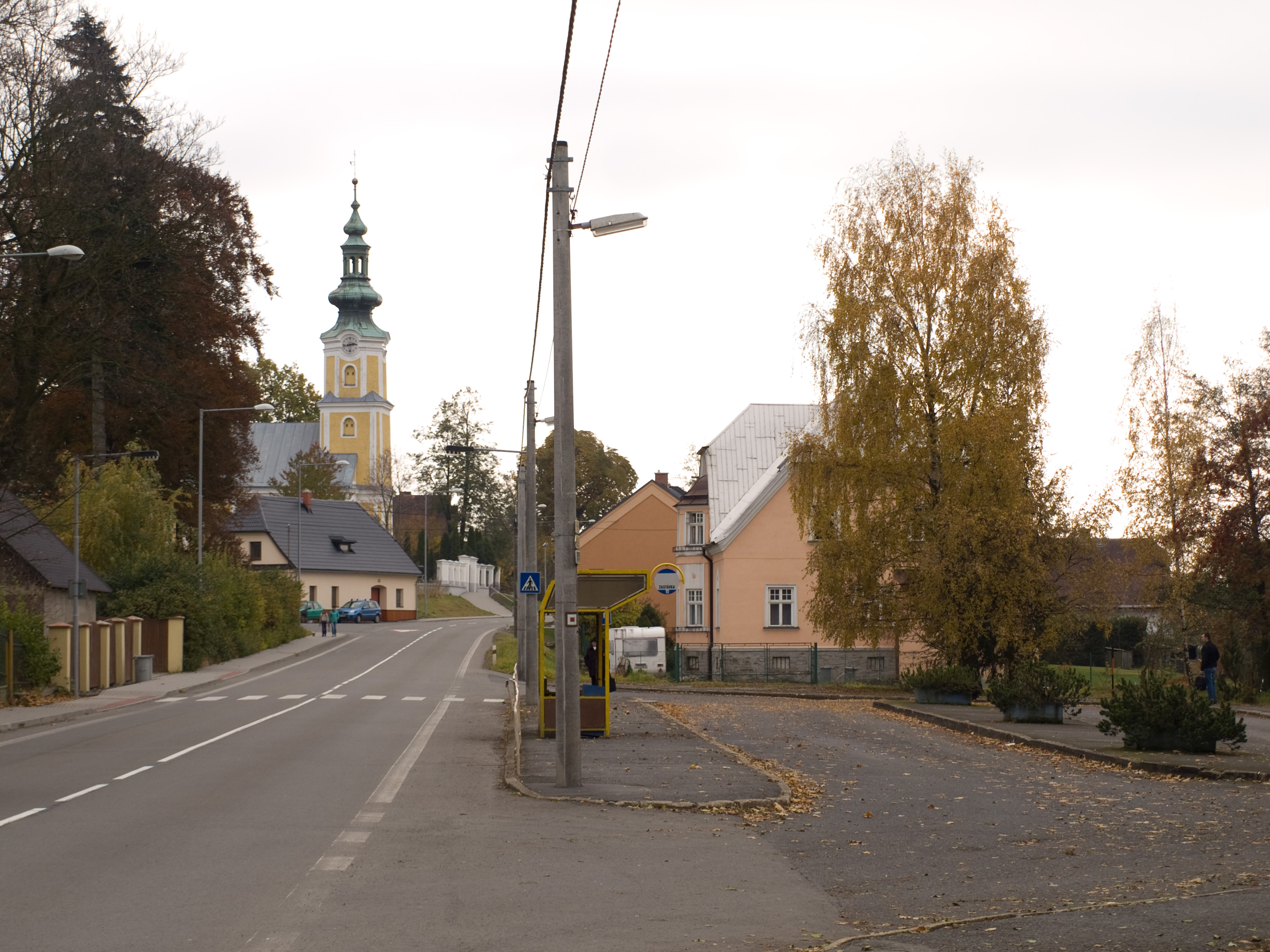 Bus stops, Světlá Hora, Bruntál District, Moravian-Silesian Region